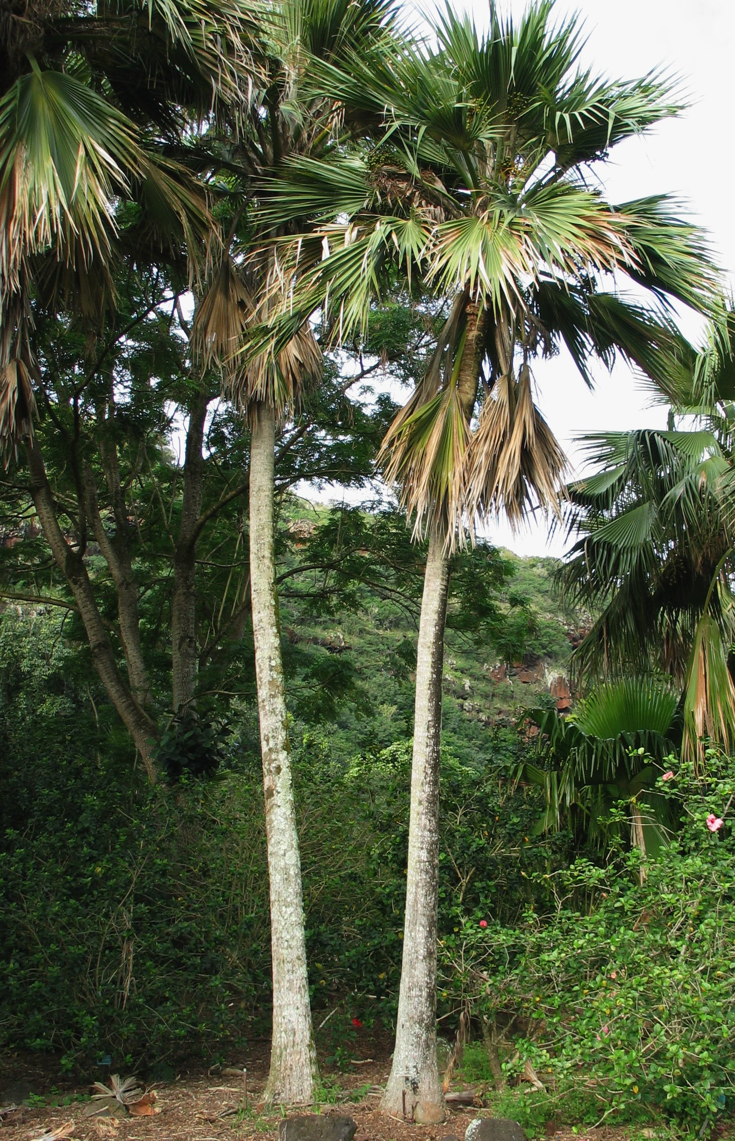 Loulu [syn. Pritchardia affinis] Arecaceae Endemic to the Hawaiian islands Endangered Oʻahu (Cultivated) Seed for these plants collected at the edge of Honaunau Forest Reserve, Kona, Hawaiʻi Island